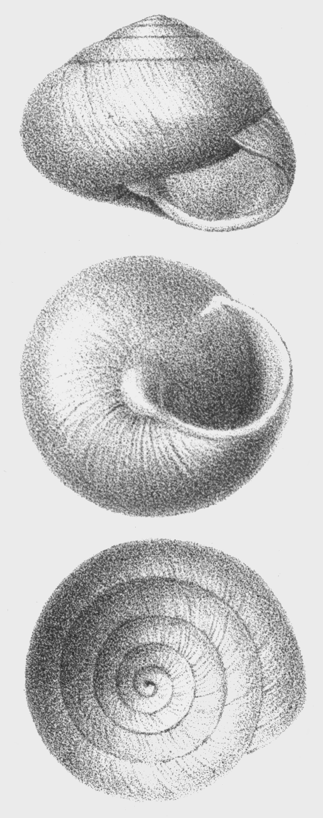 Land snail species Sphincterochila candidissima - cropped and retouched by Tom Meijer